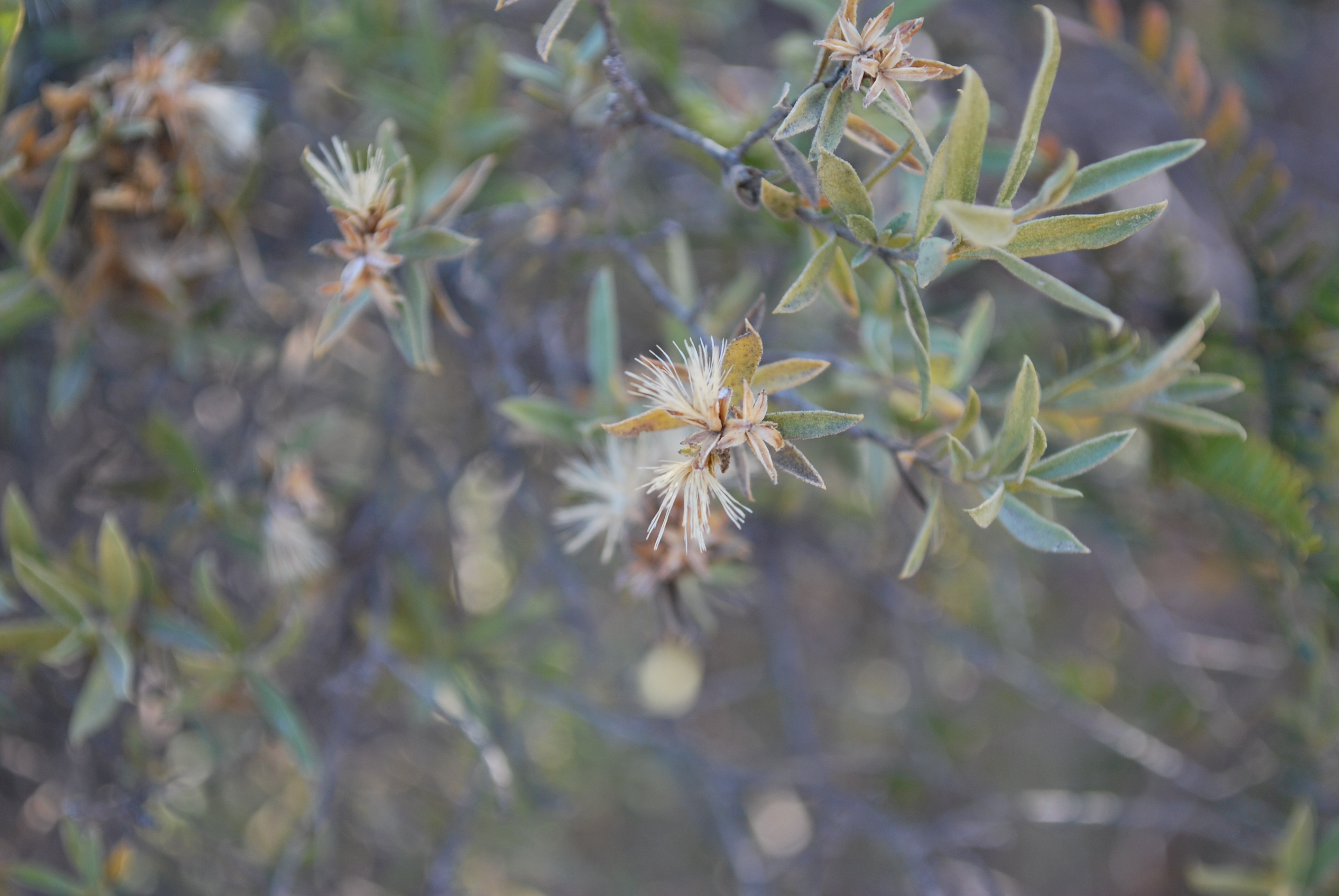 Photo taken in El Chiflón, La Rioja Province, Argentina